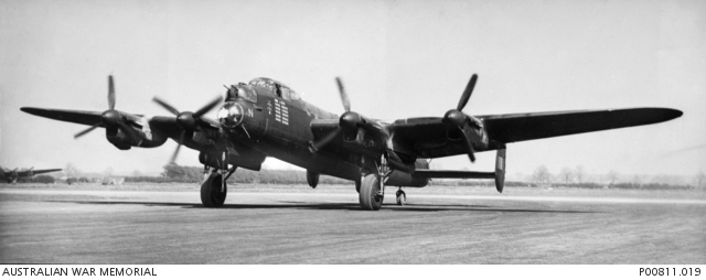 AWM caption : FISKERTON RAF STATION, LINCOLNSHIRE, ENGLAND, 1945. A LANCASTER BOMBER AIRCRAFT OF NO. 576 SQUADRON RAF ON THE RUNWAY PREPARING FOR TAKEOFF.